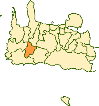 Map of Kandanos municipality, Chania